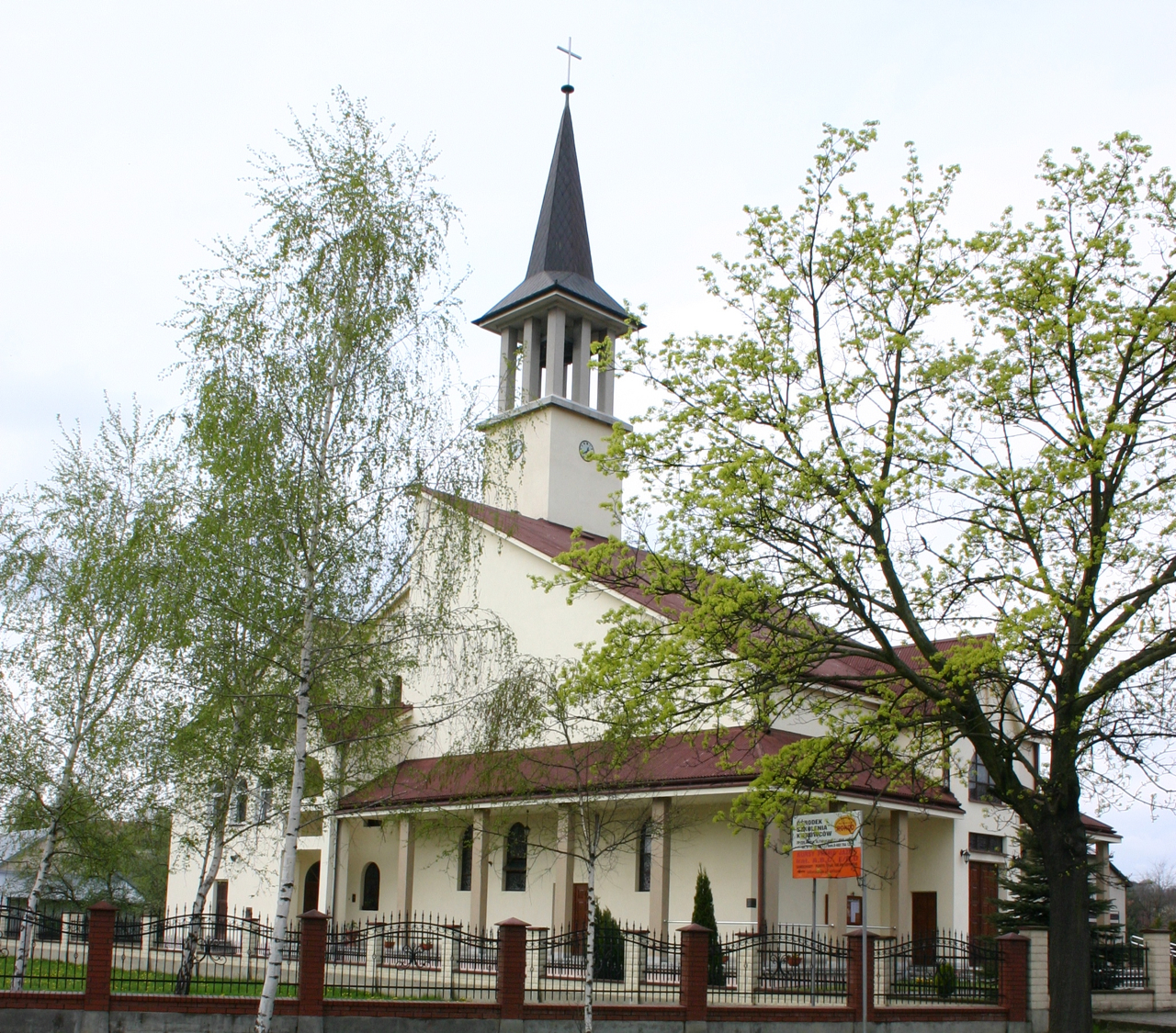 Bielowy Object location49° 56′ 29″ N, 21° 19′ 50″ E